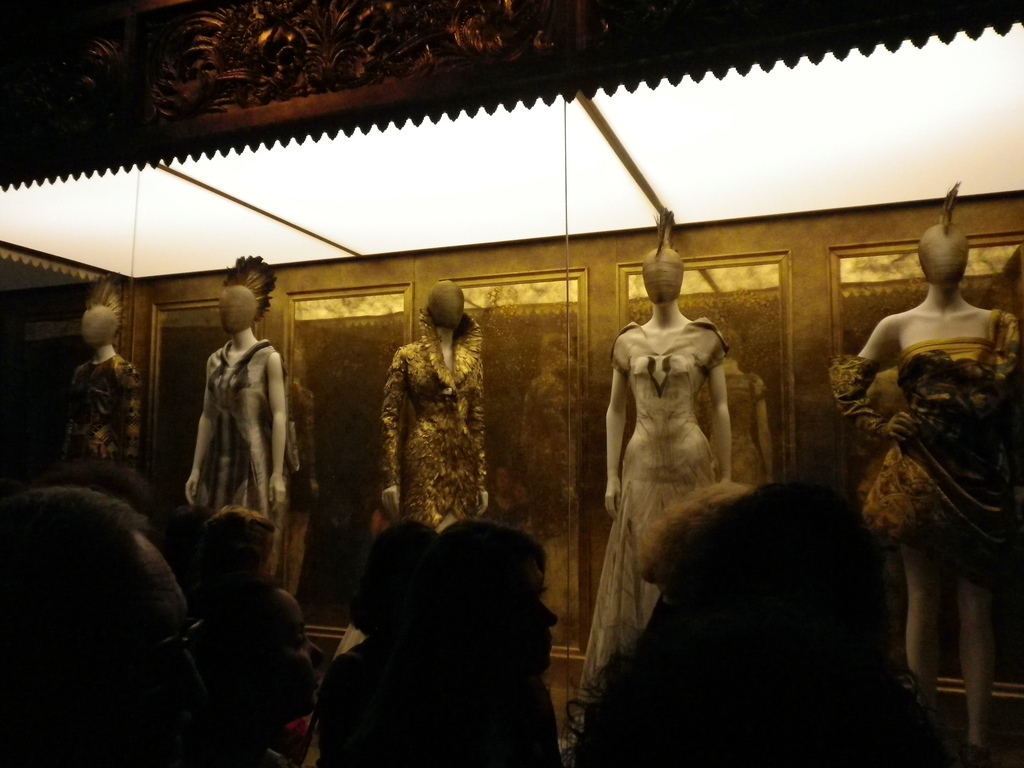 Photo of the Savage Beauty exhibition at The Met (NYC).